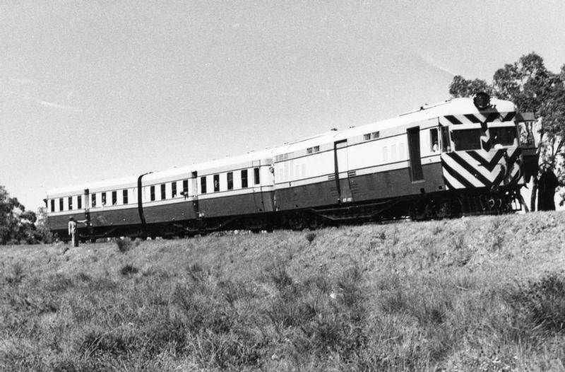 A WAGR ADF ("Wildflower") class railcar, no. ADF 490 Boronia (right), with two ADU class trailers (left), on a test run.